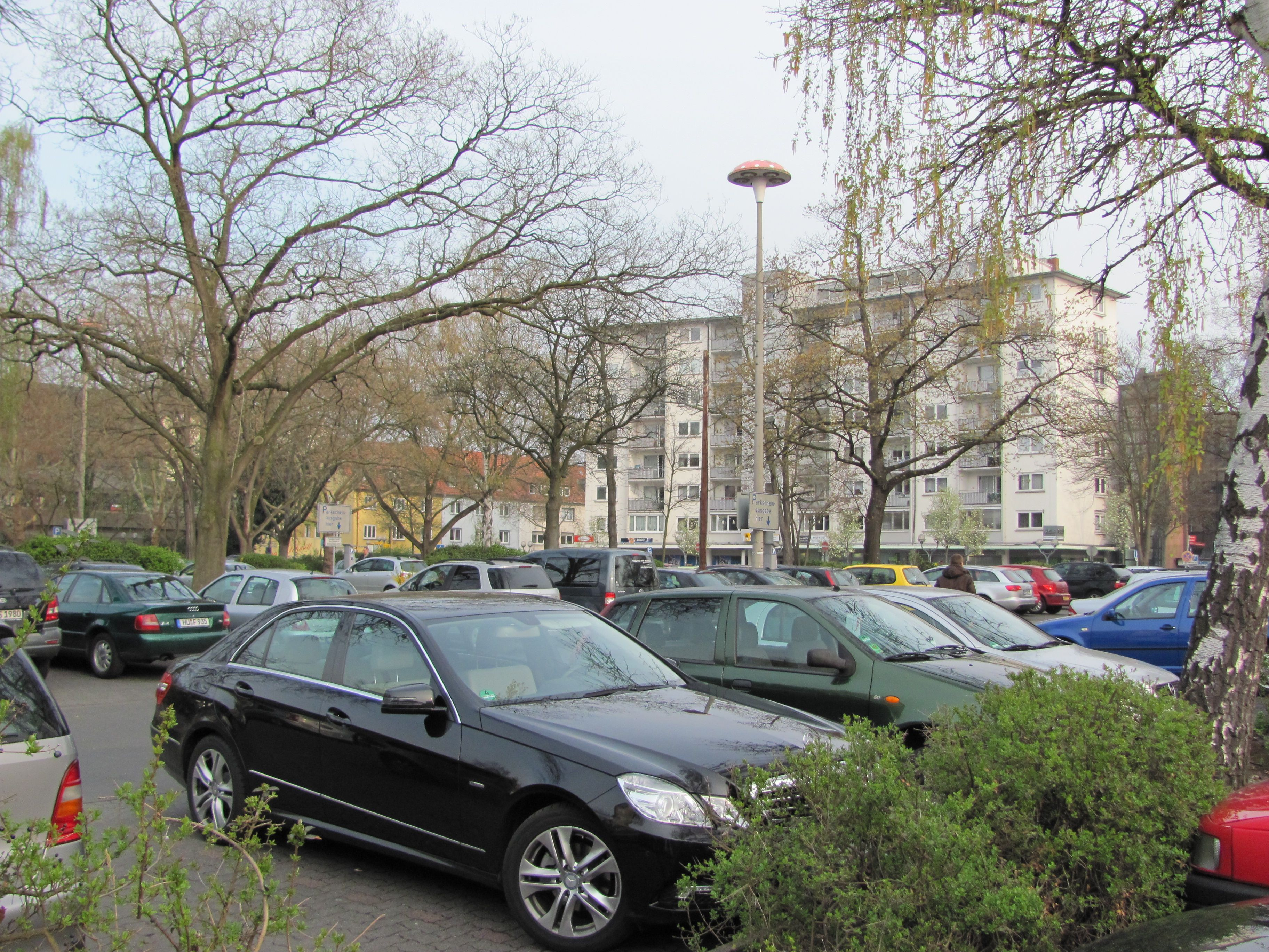 Freiheitsplatz Hanau